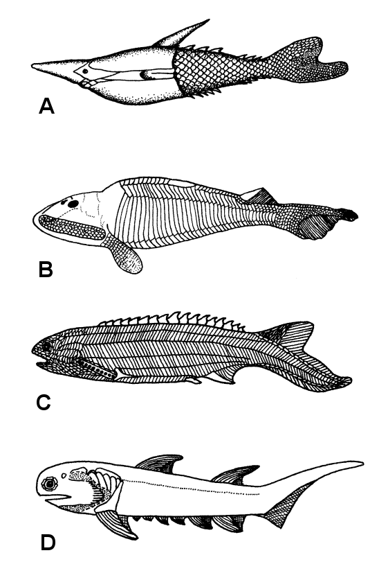 Fossil jawless and jawed fish. A - Pteraspis, a pteraspidomorphan and two Cephalaspidomorphans: B - Hemicyclaspis (Osteostraci), and C - Pterygolepis (Anaspida). A, B, and C are all ostracoderms (jawless, armored fish). D - Climatius, is a fossil acanthodian (Spiny sharks) with a jaw.